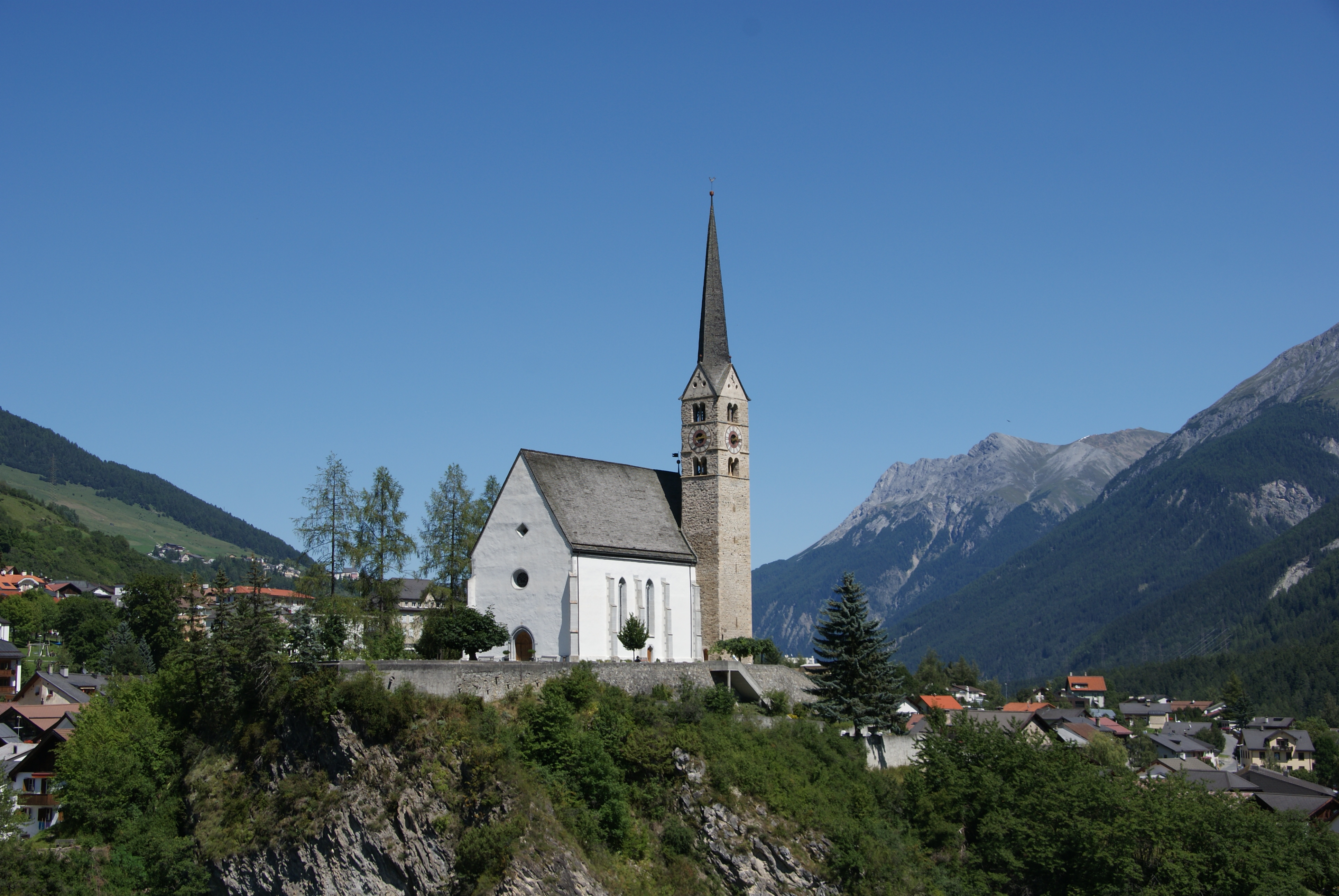 Scuol, Lower Engadine